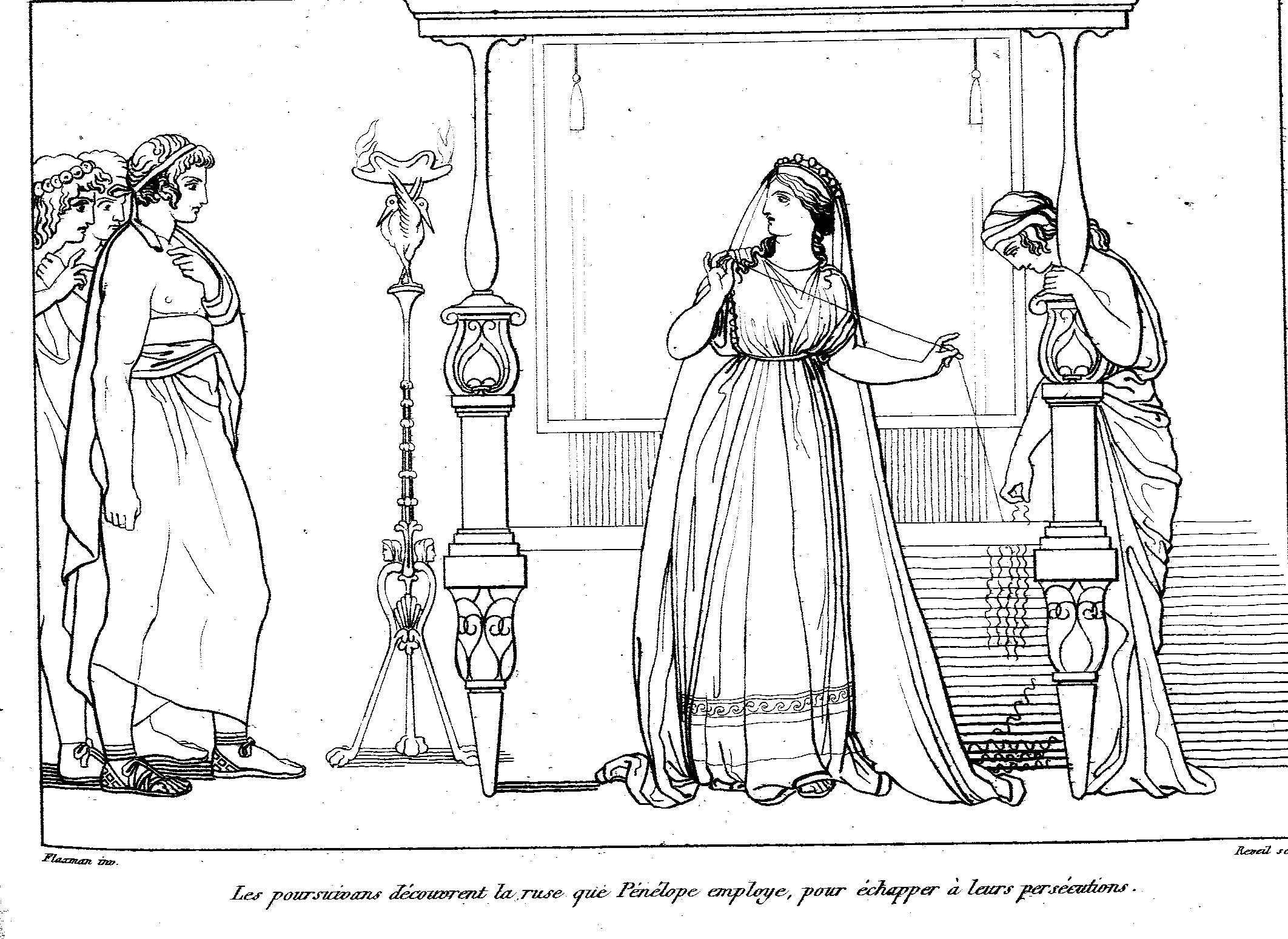 Illustrations of Odyssey